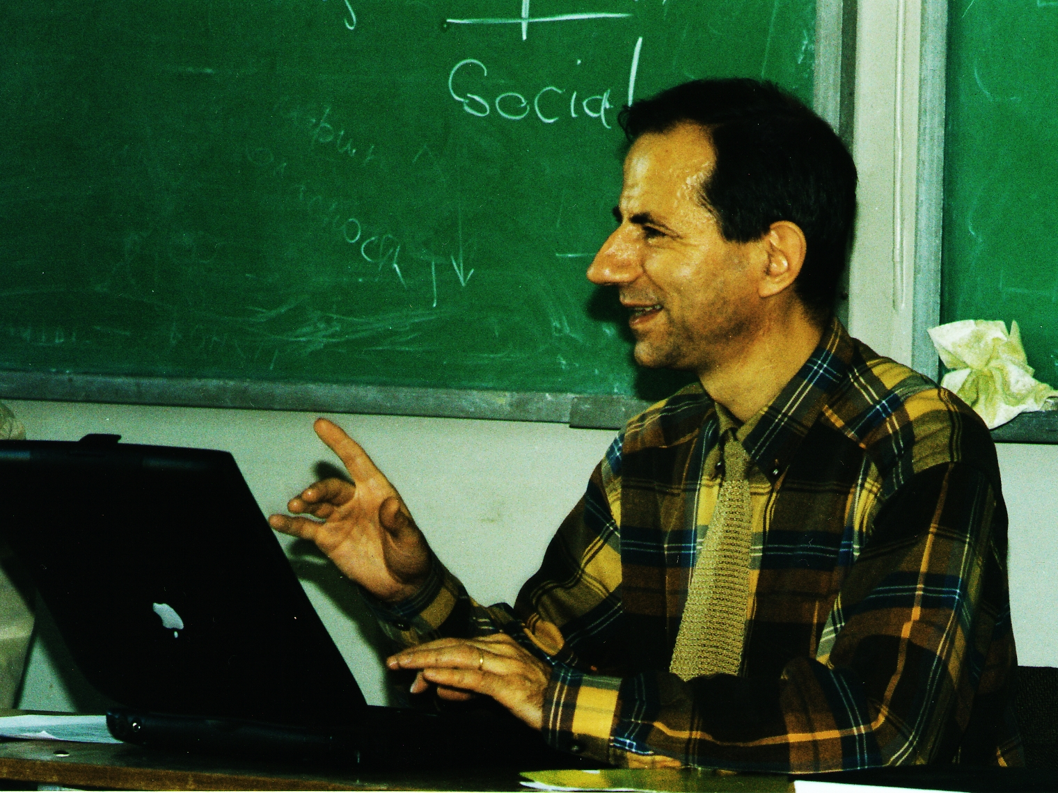 Laurent Thévenot (b. 1949).